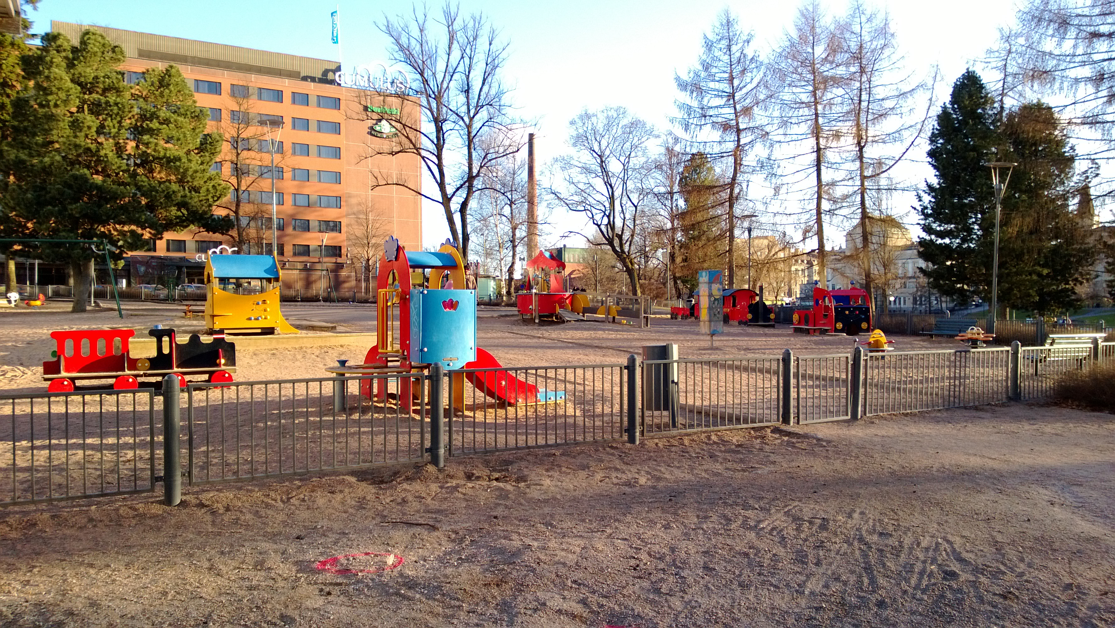 Playground inspired by Finnish TV series Pikku Kakkonen in Tampere city, Finland. The playground renovated in 2013–2014, after taking this photo.